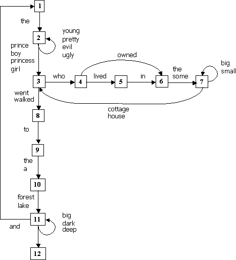 Grammar Automaton image by Sebastian Nguyen (after Ulf Grenander)the loop from state 11 should be moved to state 10.